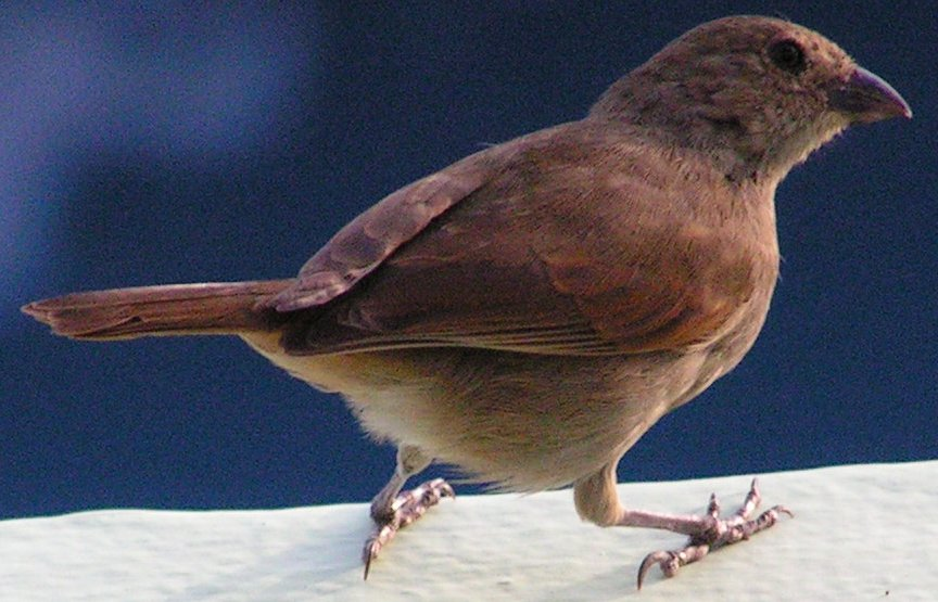 The Barbados Bullfinch (Loxigilla barbadensis) photographed on Barbados